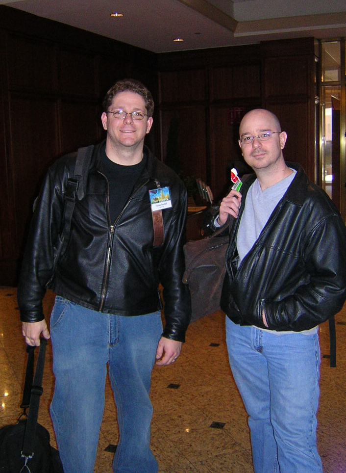 Just two Ohio guys.